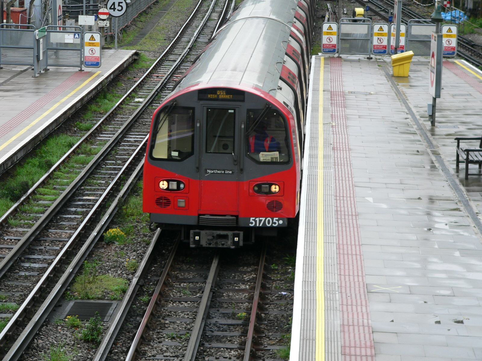 London Underground Northern Line 1995 tube stock electric multiple unit 51705 at Finchley Central tube station on 24 October 2005.